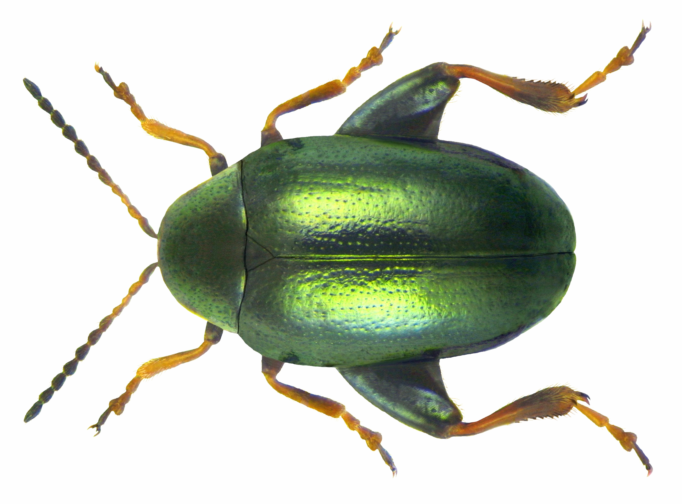 Family: Chrysomelidae Size: 2.8 mm Origin: Europe Ecology: Development in Marrubium species Location: England P.Harwood, coll Pres 1957, Coll. Museum of Oxford Photo: U.Schmidt, 2011